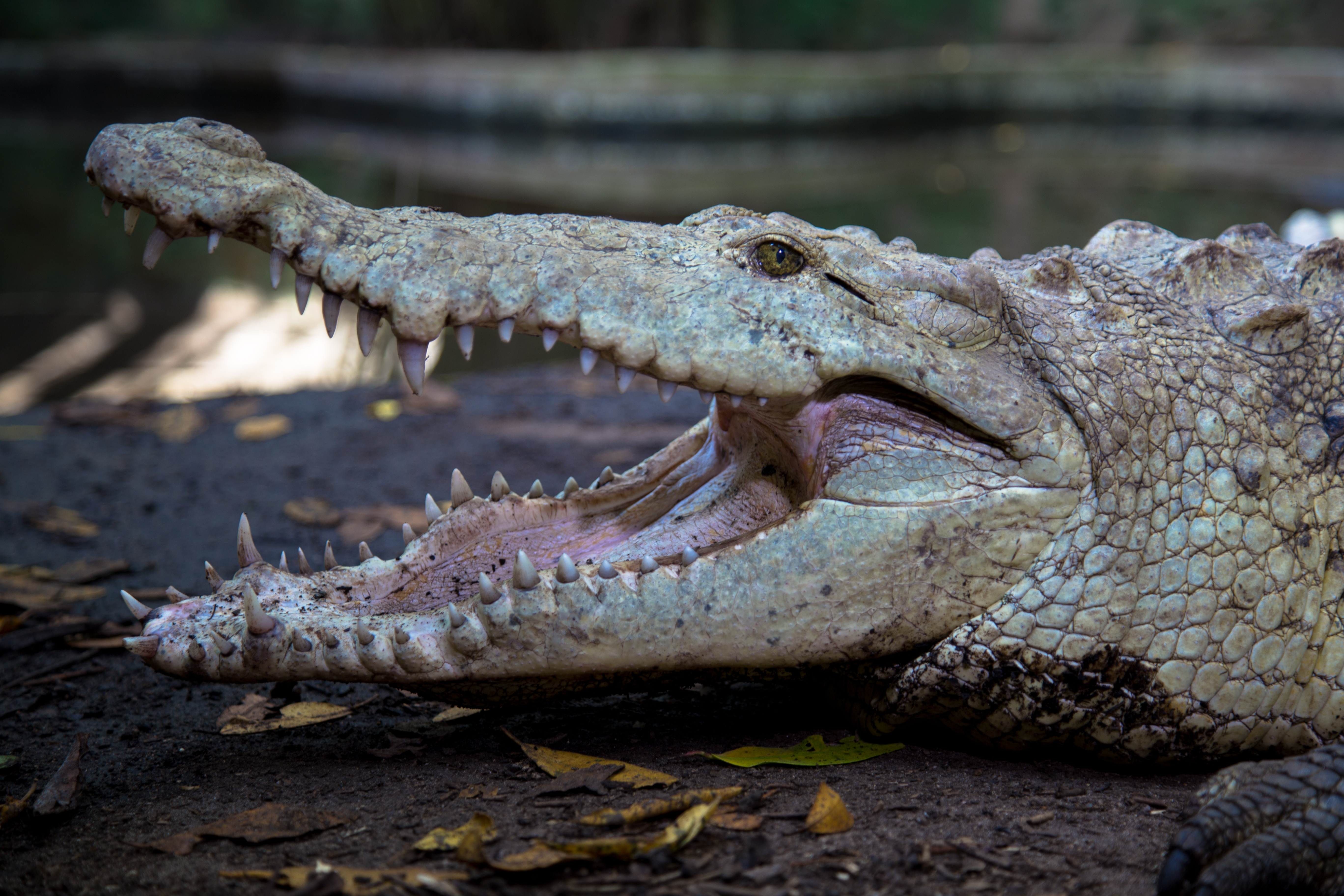 An albino crocodylus acutus, or american crocodile, at La Manzanilla, Jalisco, Mexico.